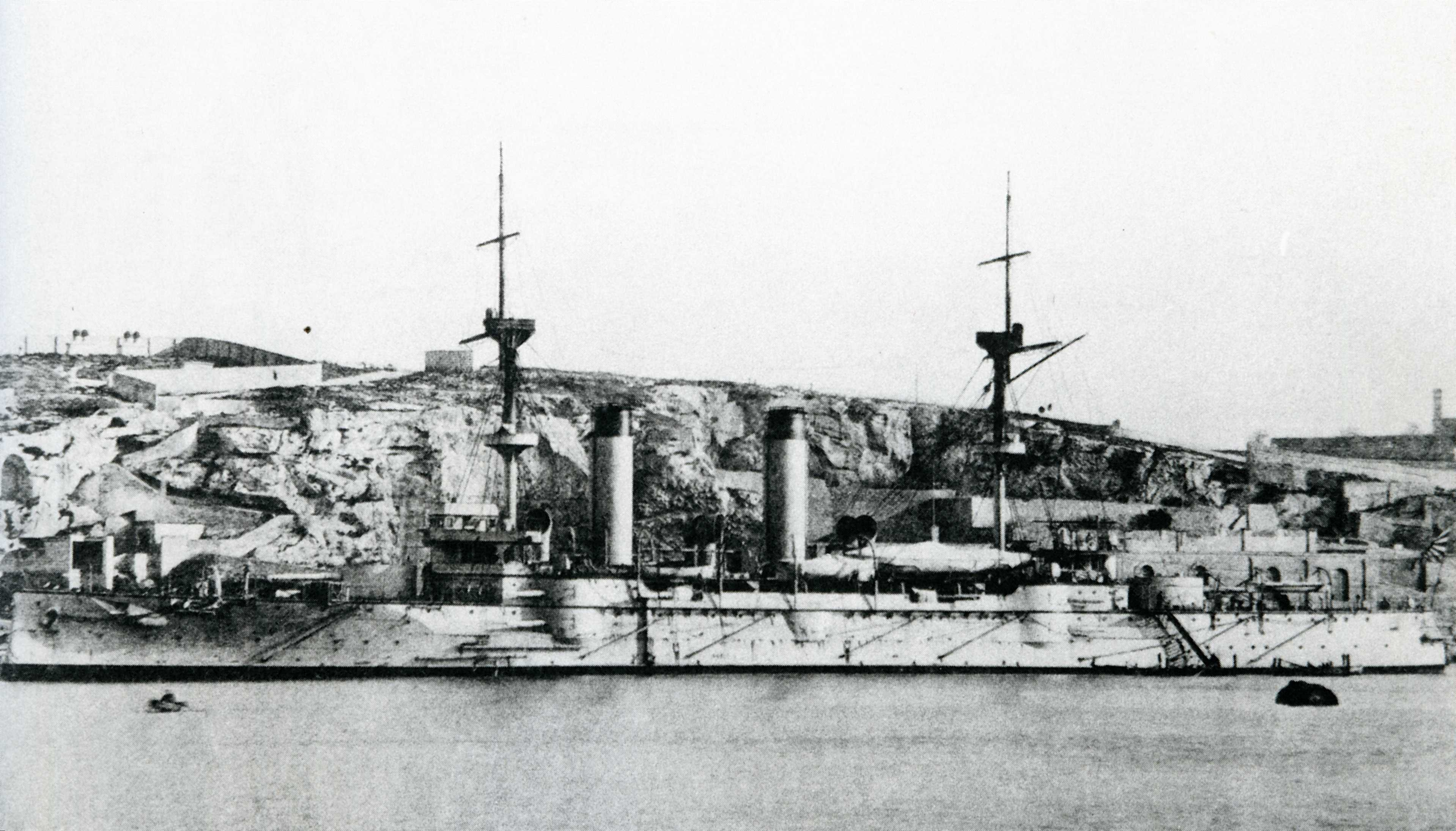 Japanese armored cruiser Asama at Malta, World War I